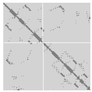 Protein Contact Map of VPA0982 from Vibrio parahaemolyticus RIMD 2210633, PDBID 2QIP, 4 Residues+ Spacing, 8 Angstroms (Generated from PDB file)